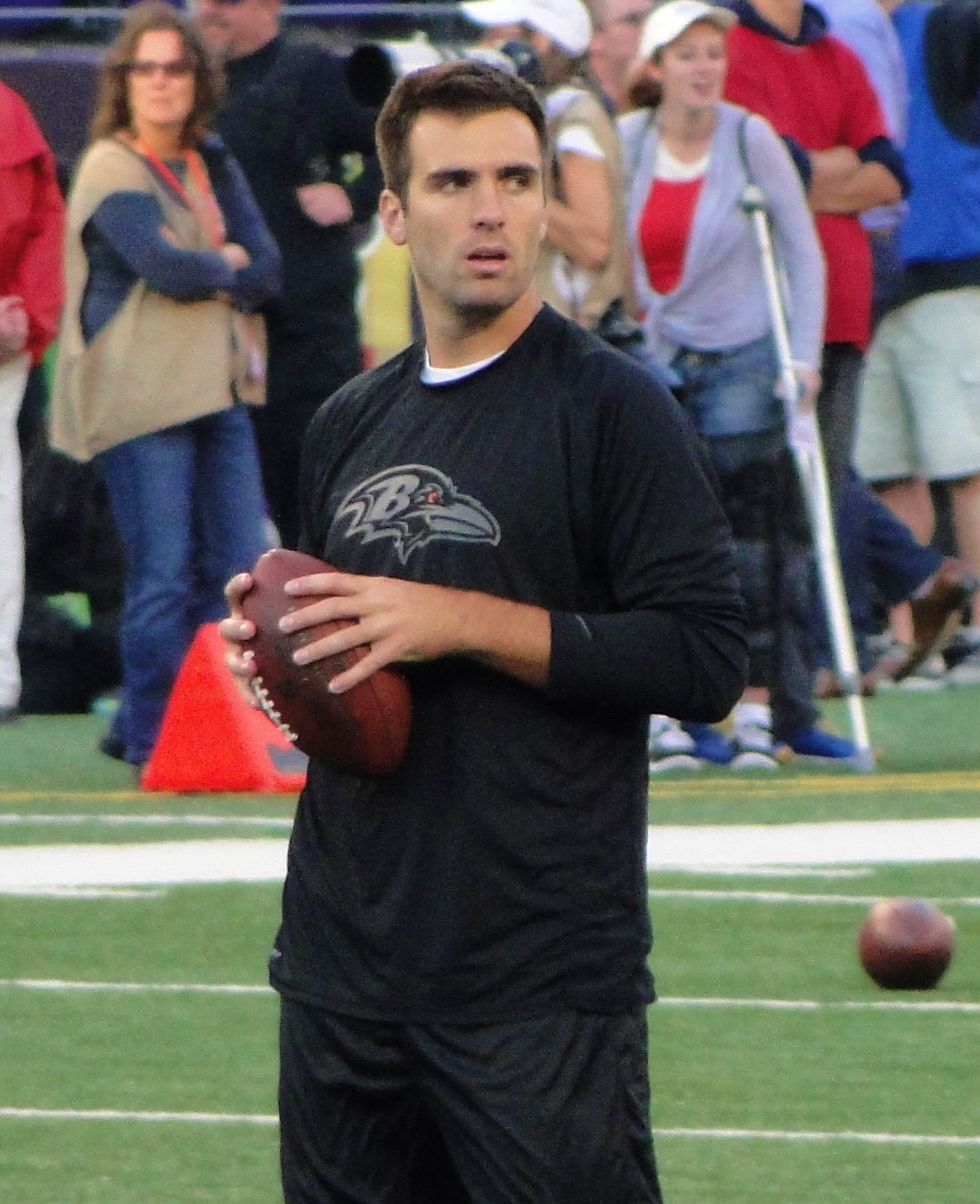 Joe Flacco warms up before a game versus the New England Patriots at M&T Bank Stadium in Baltimore, Maryland